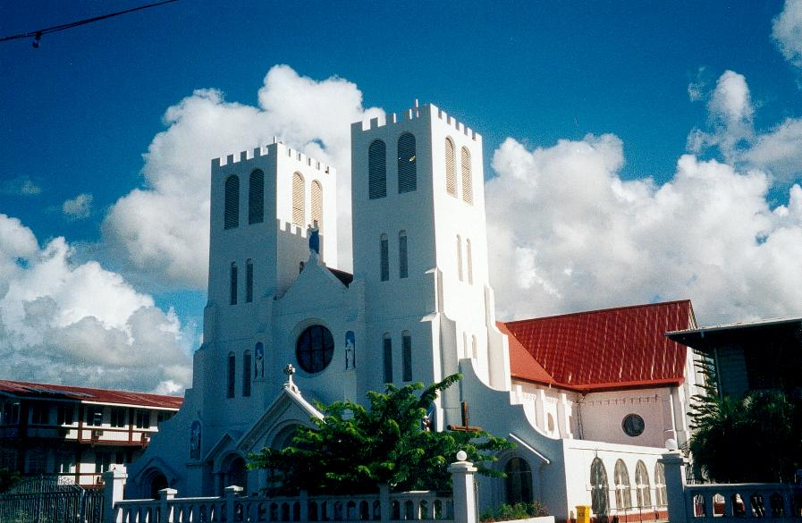 Cathedral in Apia, Samoa